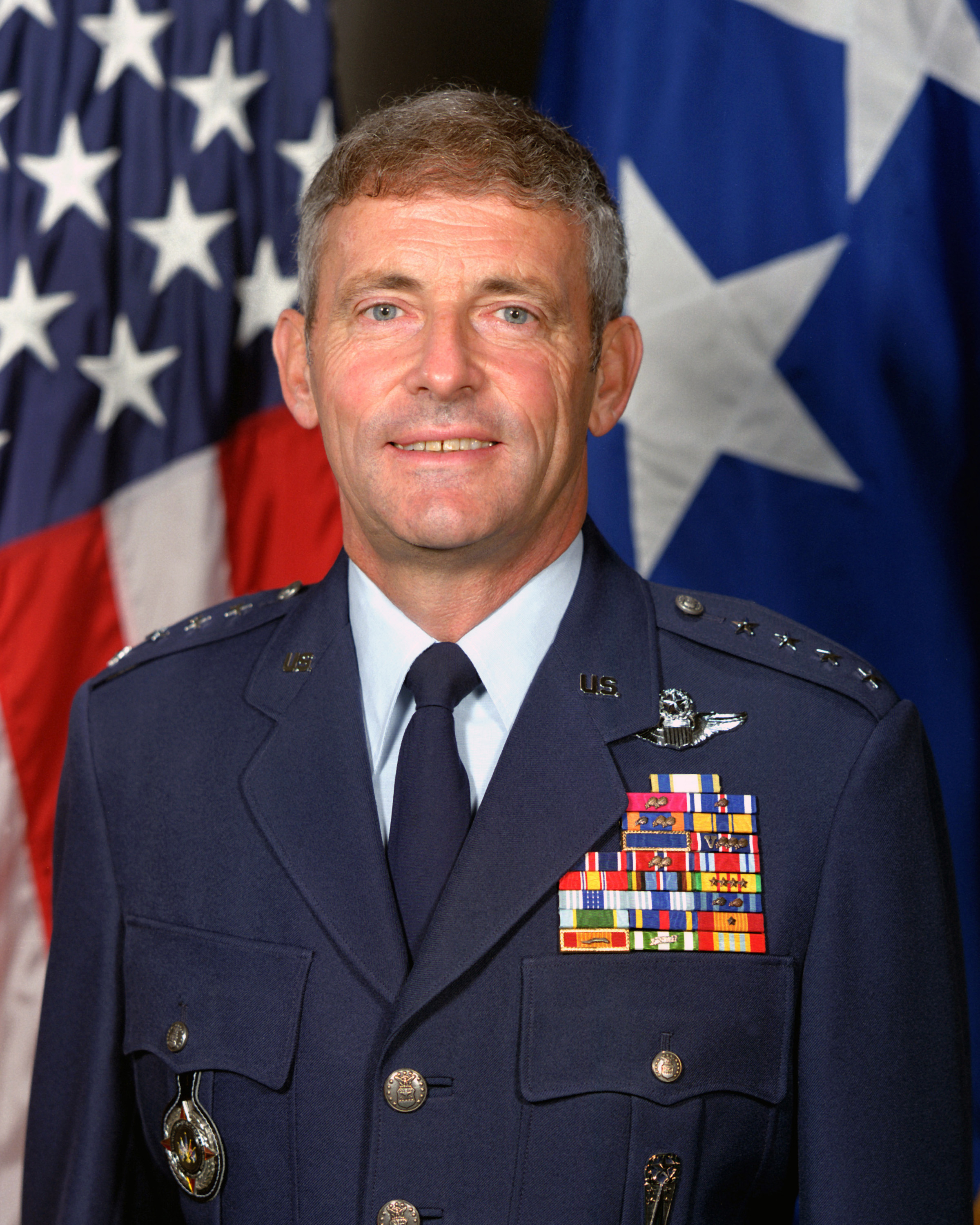 General James P. McCarthy, DCINCEUR